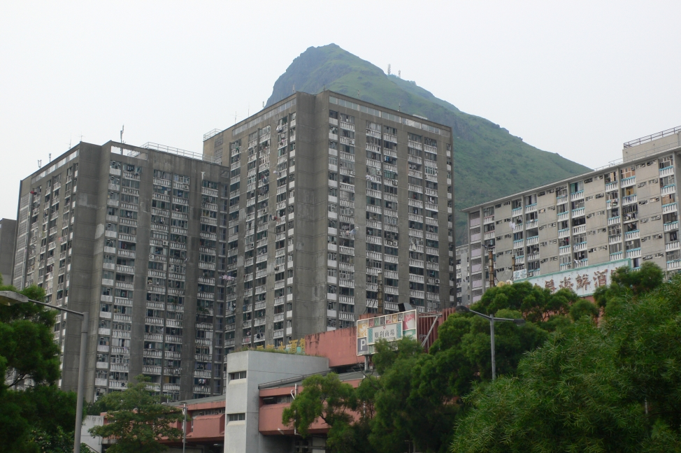 The West end of Shun Lee Estate, Hong Kong